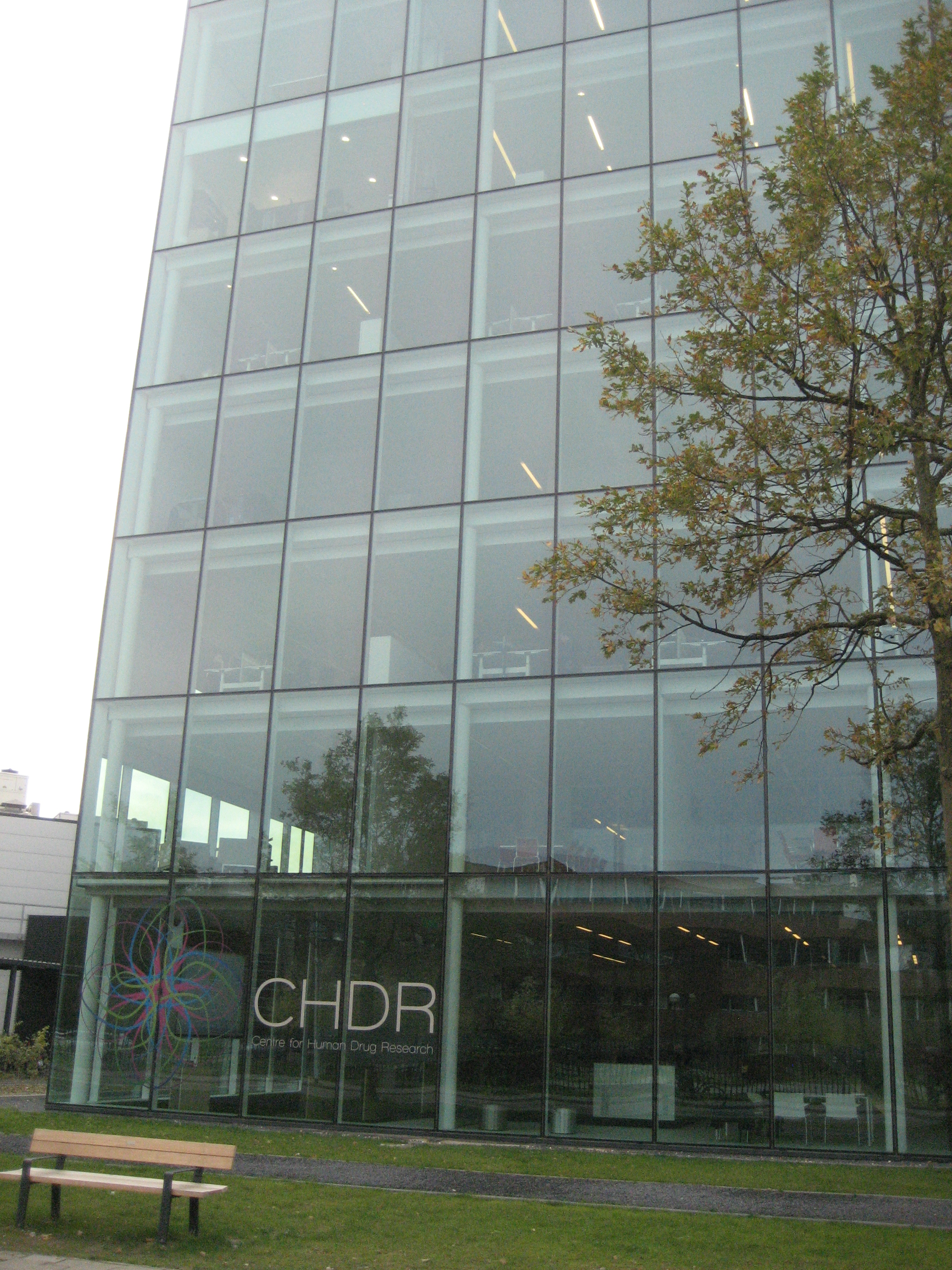 CHDR Leiden. Leiden Bio Science Park